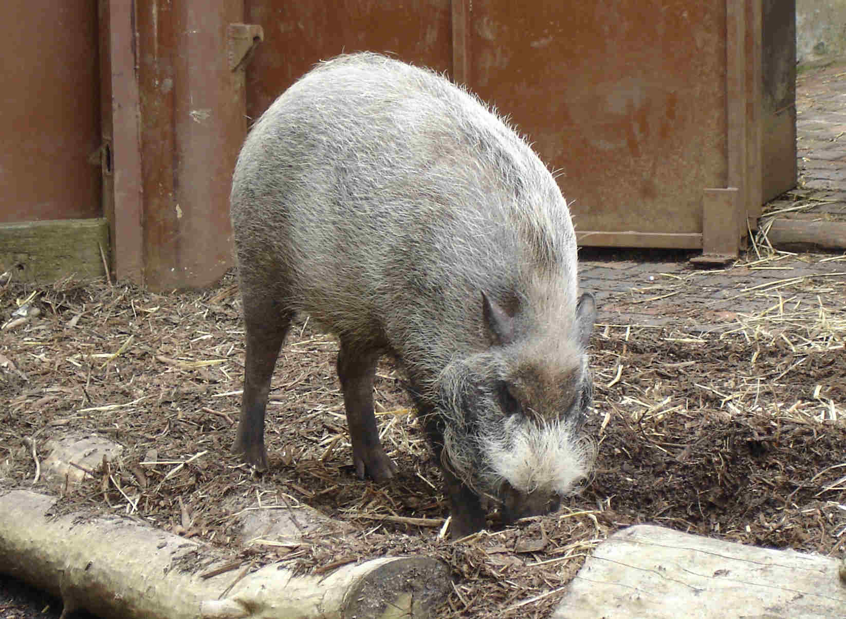 A Bearded Pig at London Zoo.